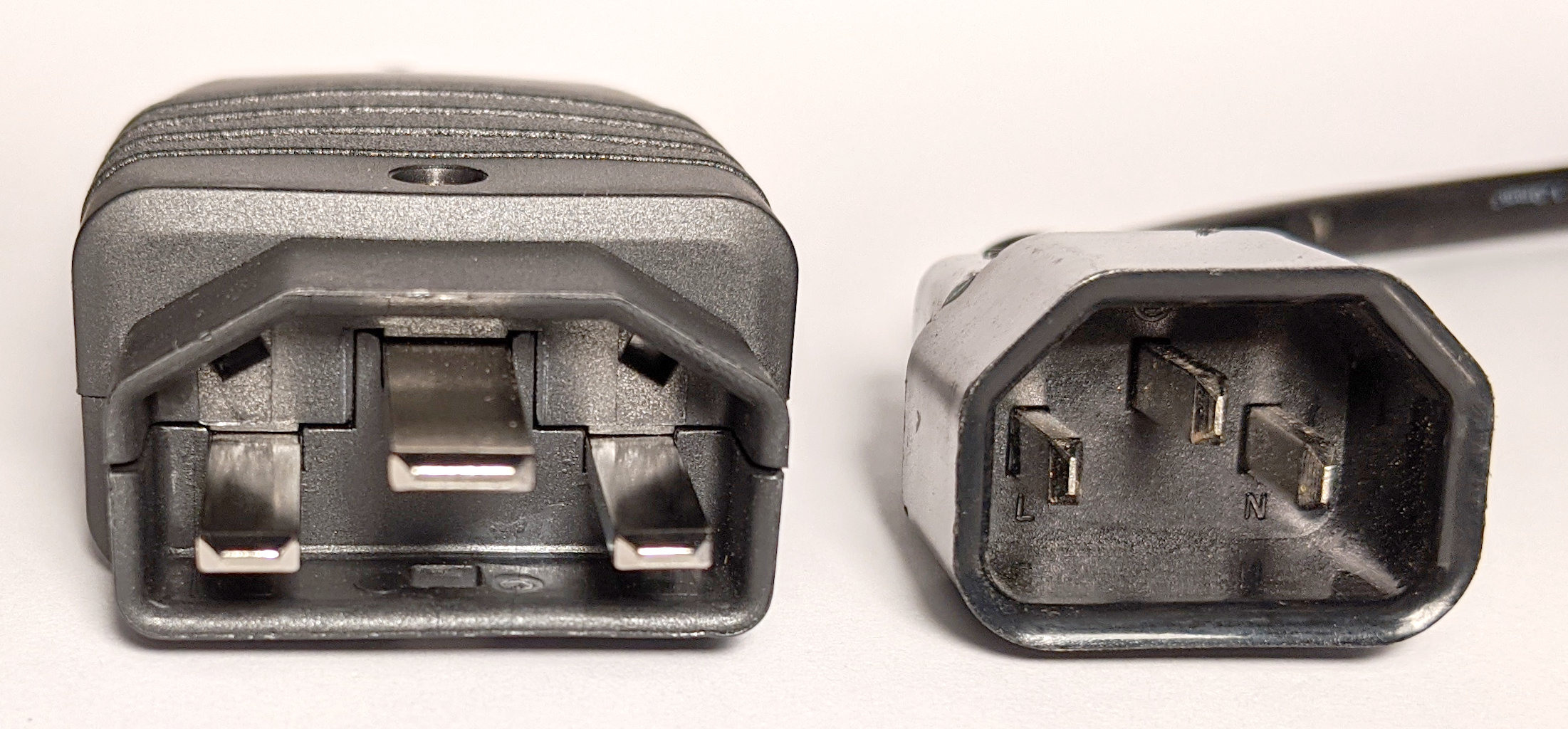 Size comparison of the IEC TS 62735 connector used for receiving DC power at a maximum of 2.6 kW and 400 volts DC (left) and an IEC 320 C14 connector capable of receiving a maximum of 250 volts AC at 10 amps (right).